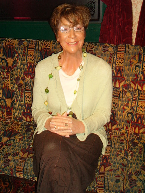 Deirdre Barlow sitting in the Rovers Return in Madame Tussauds Blackpool.